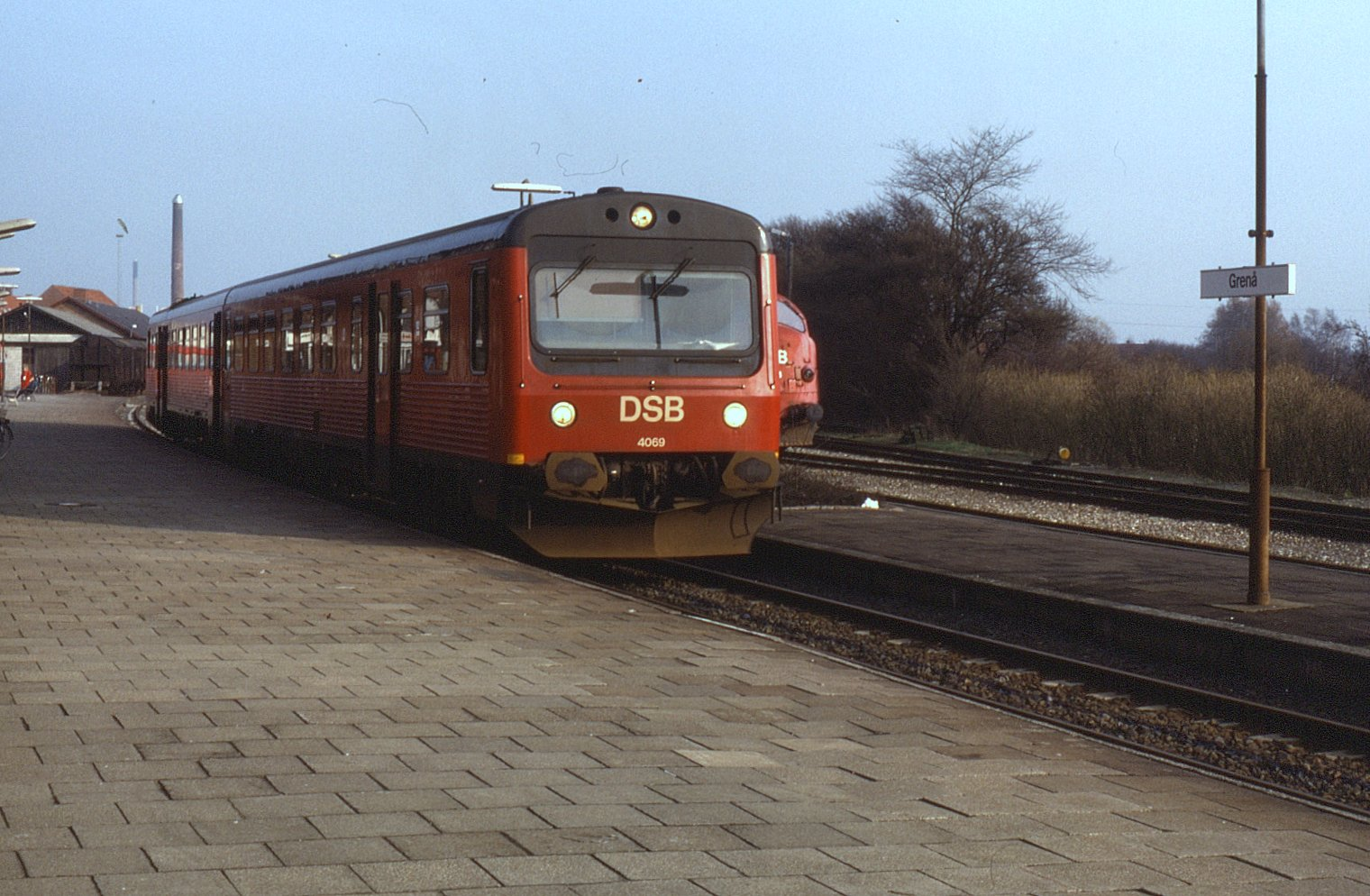 97 of these 2-car DMU sets class MR were built for DSB in the late 1970s. Used on regional trains in Jutland. Photo taken on 21 February 1990 at the branch line terminus of Grenå. Train 3537, 13:40 Grenå to Århus.